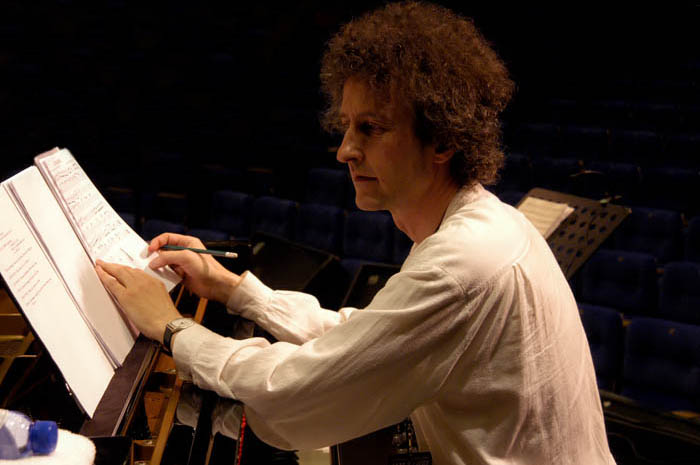 This is a self-made picture of Michel Herr (in 2006). There is no copyright on this picture.